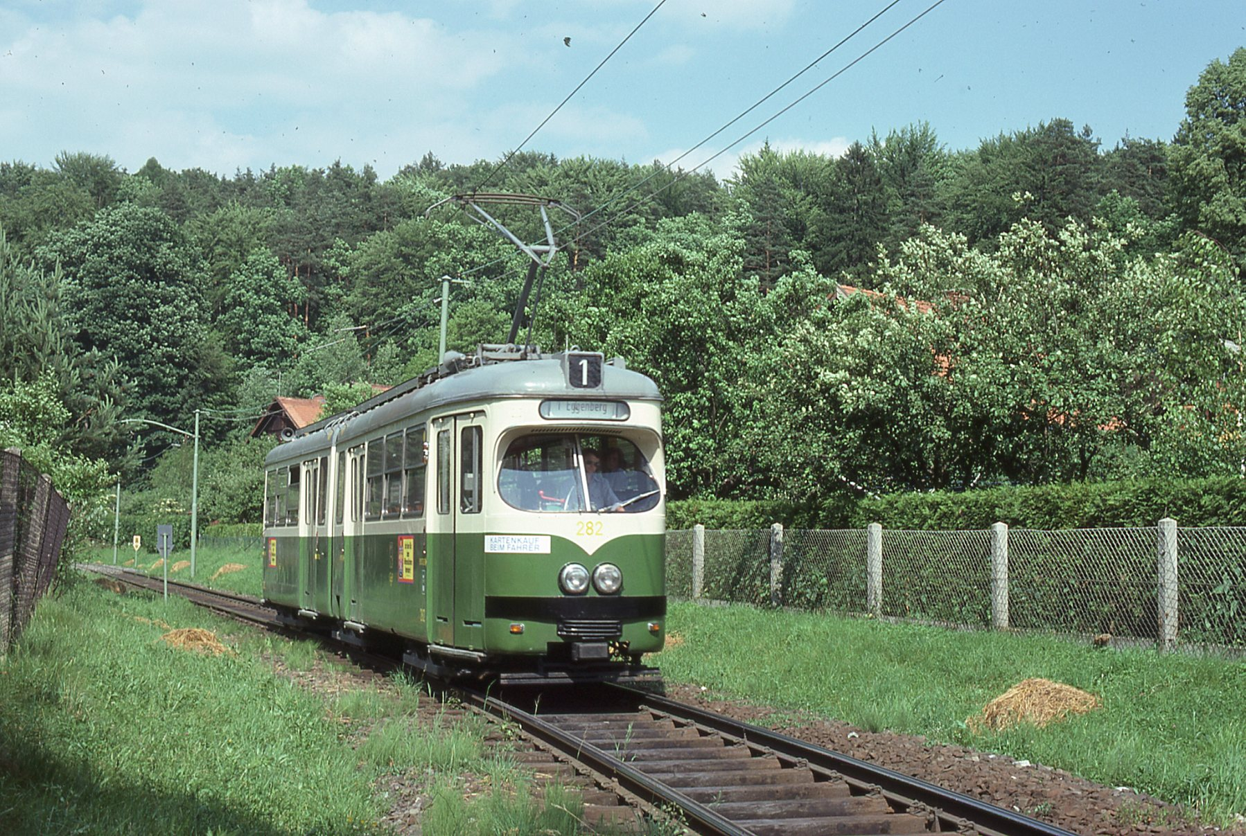 Graz tramways, car 282 on line 1 to Mariatrost.